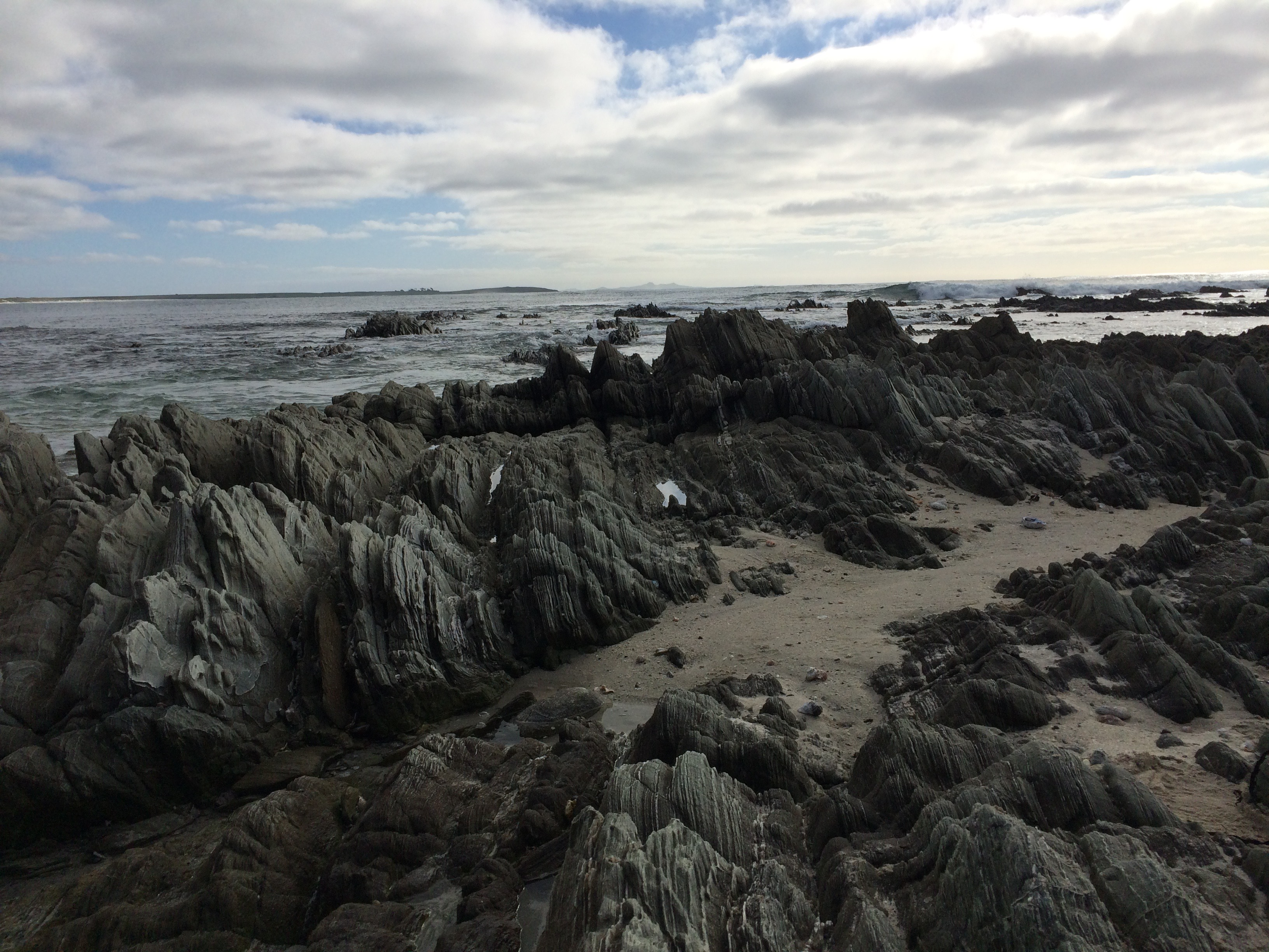 Schist outcrop at Kaingaroa Beach. The oldest rock formation on the Chatham Islands